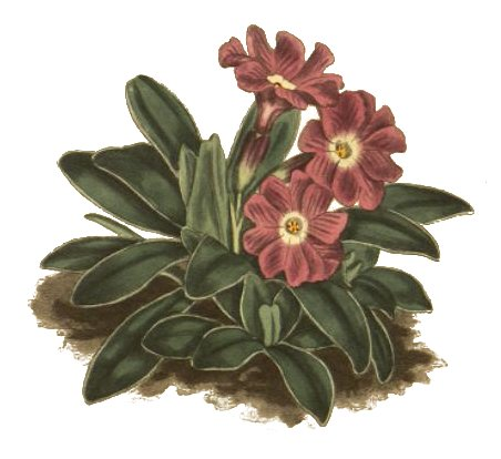 Illustration of Primula integrifolia, from Image:Primula integrifolia.jpg